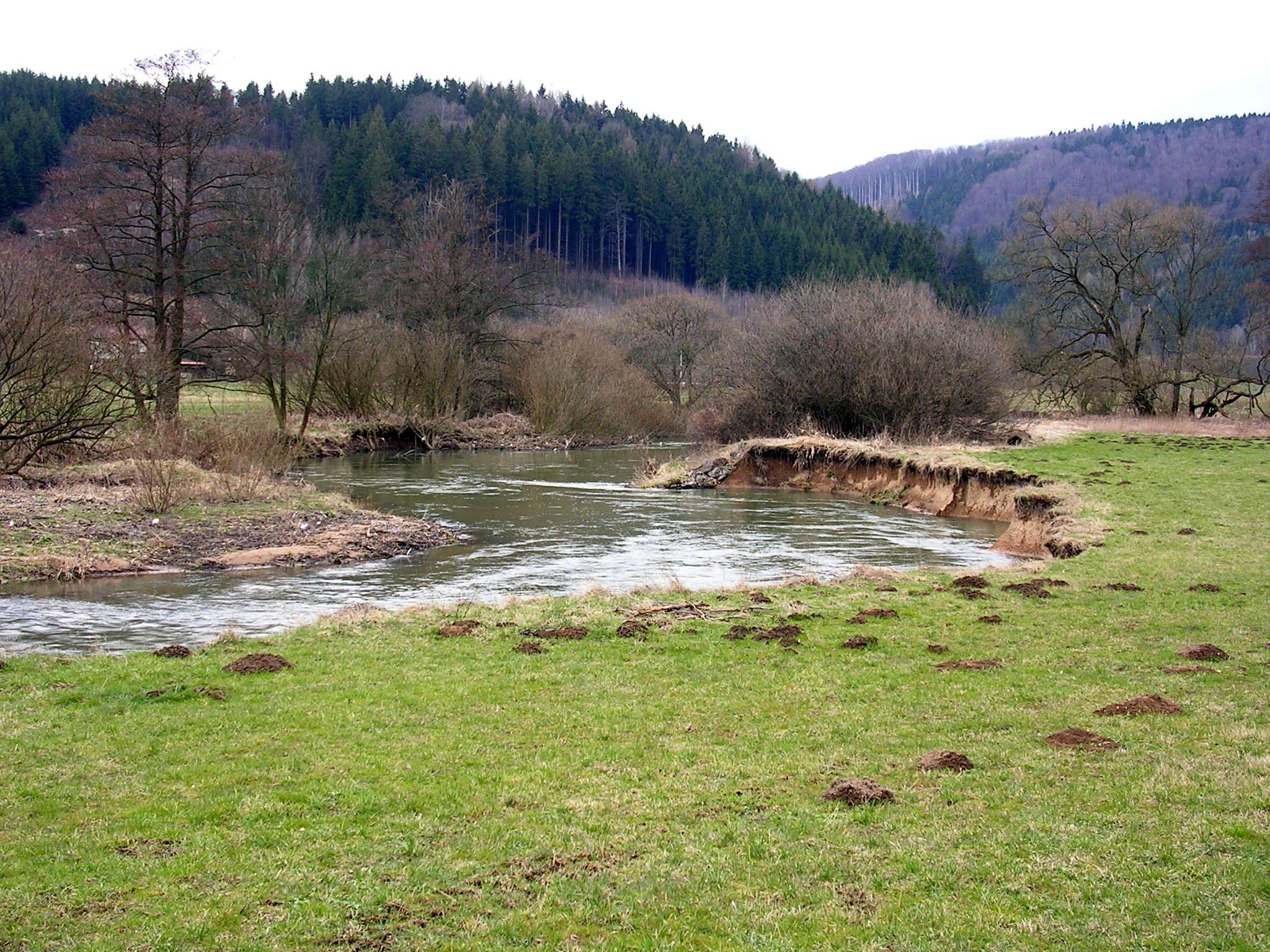 Tichá Orlice River, Orlické Podhůří, the Czech Republic.